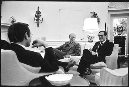 White House Chief of Staff Donald Rumsfeld, President Gerald Ford, and Special Consultant Robert Goldwin. Archives reference A1934. Professor Irving Kristol off camera to the left.